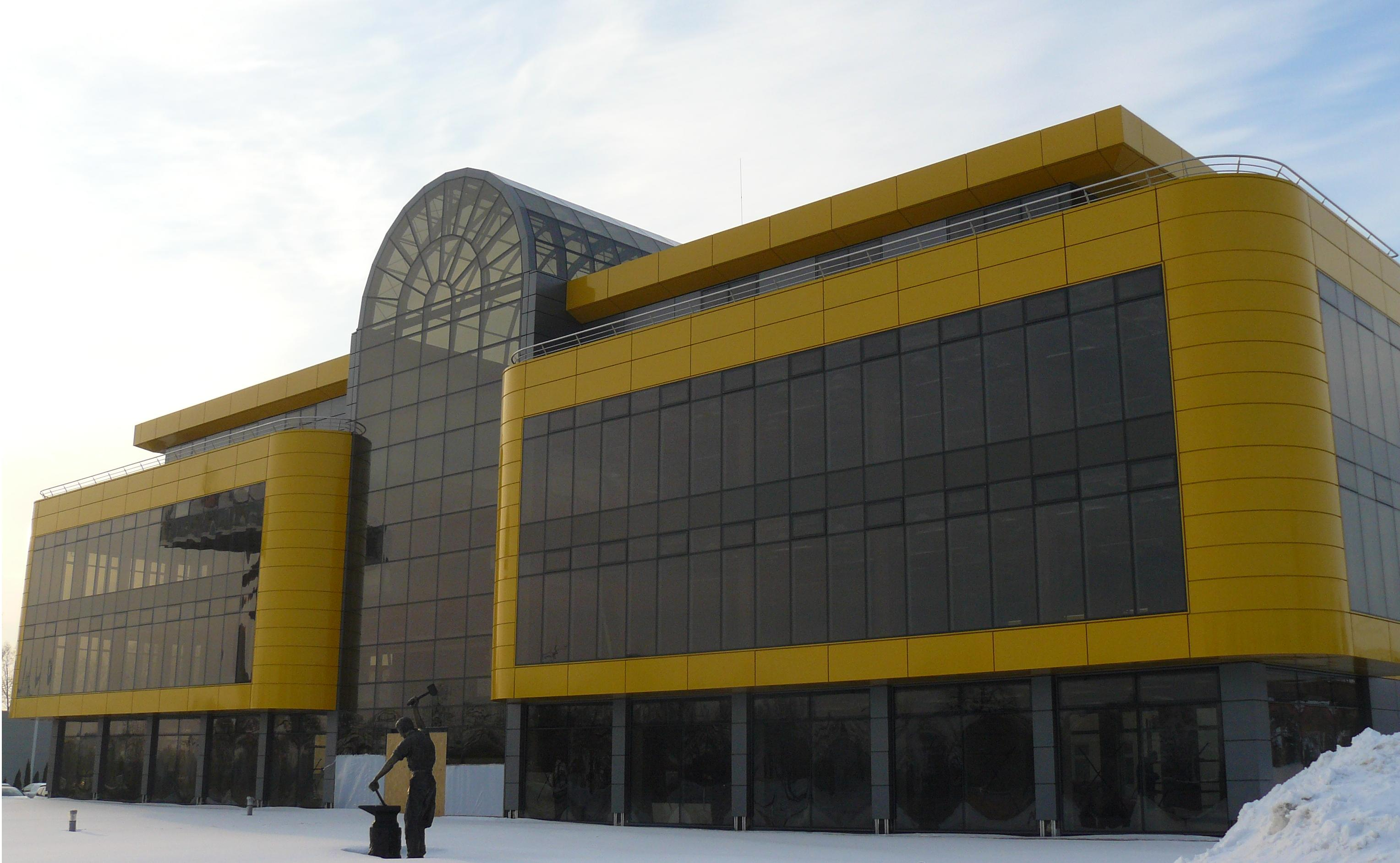 Spartherm headquarters